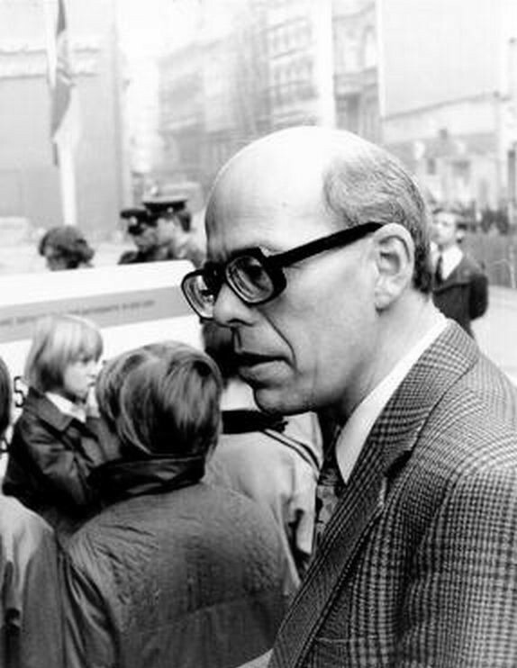 Hans Jörg Stetter, Halle 1974